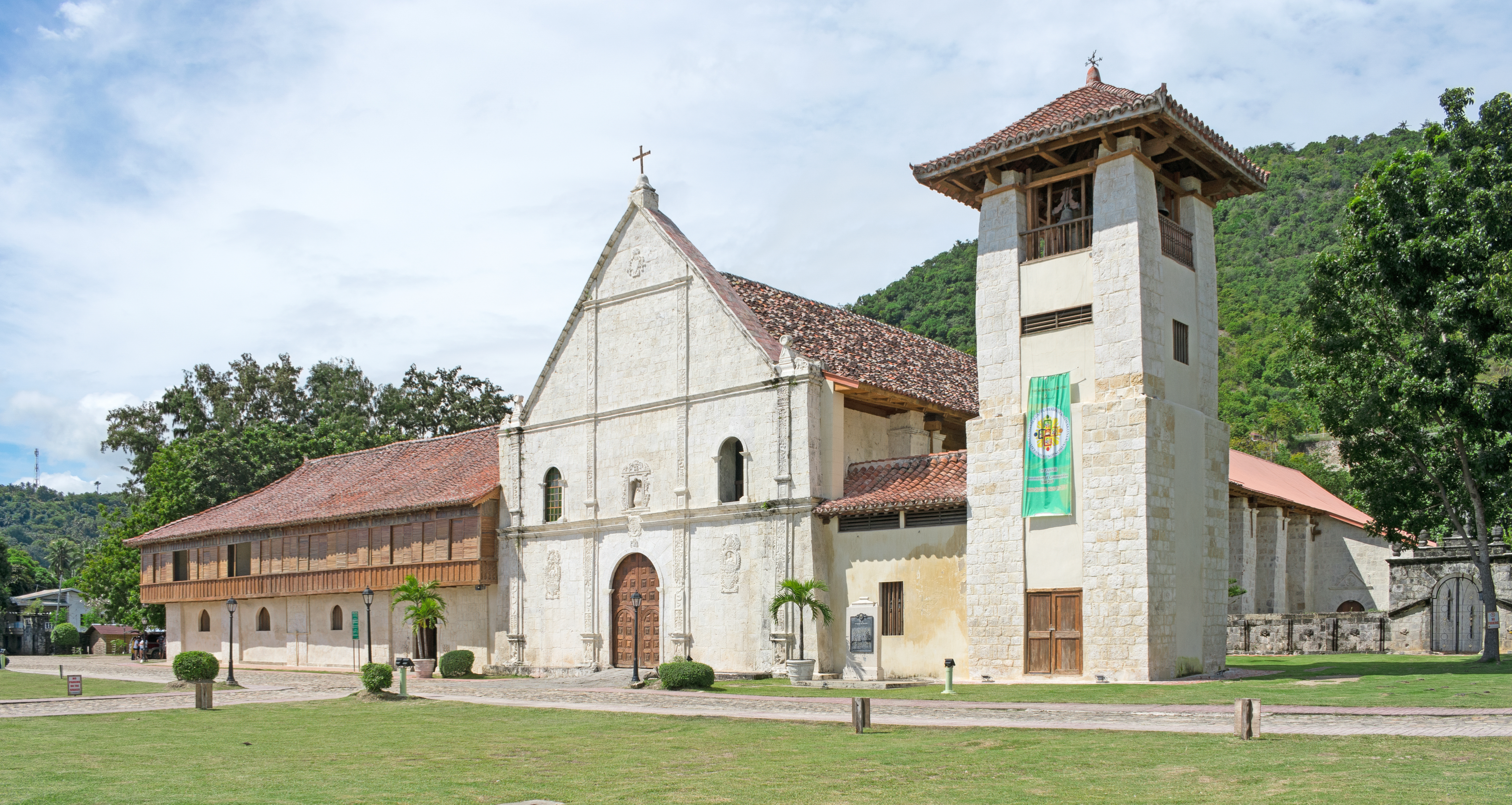 Patrocinio de Maria Church in Boljoon, Cebu Island, Philippines. The church is facing east to the ocean. It not only serves as a church for Boljoon, it also has a museum of local religious items through out the church history. This church is also a National Cultural Treasure by the National Museum of the Philippines and a National Historical Landmark. The church also survived the 2013 earthquake, where several other churches in the area were significantly damaged. This image was taken on January 21, 2017.